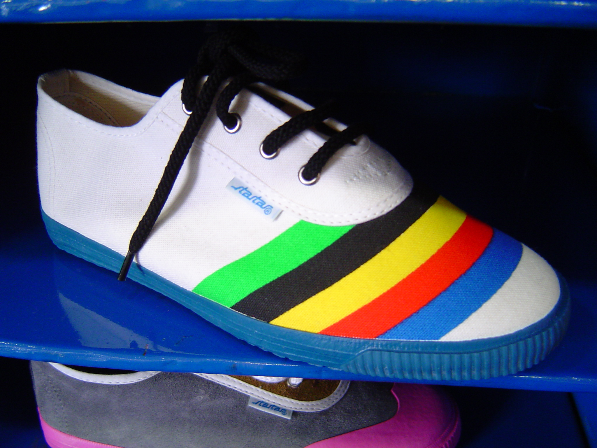 Startas sportshoes